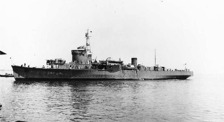 Itsukushima (Japanese Minelayer/Netlayer, 1929-1944) Photographed circa 1935. U.S. Naval Historical Center Photograph.